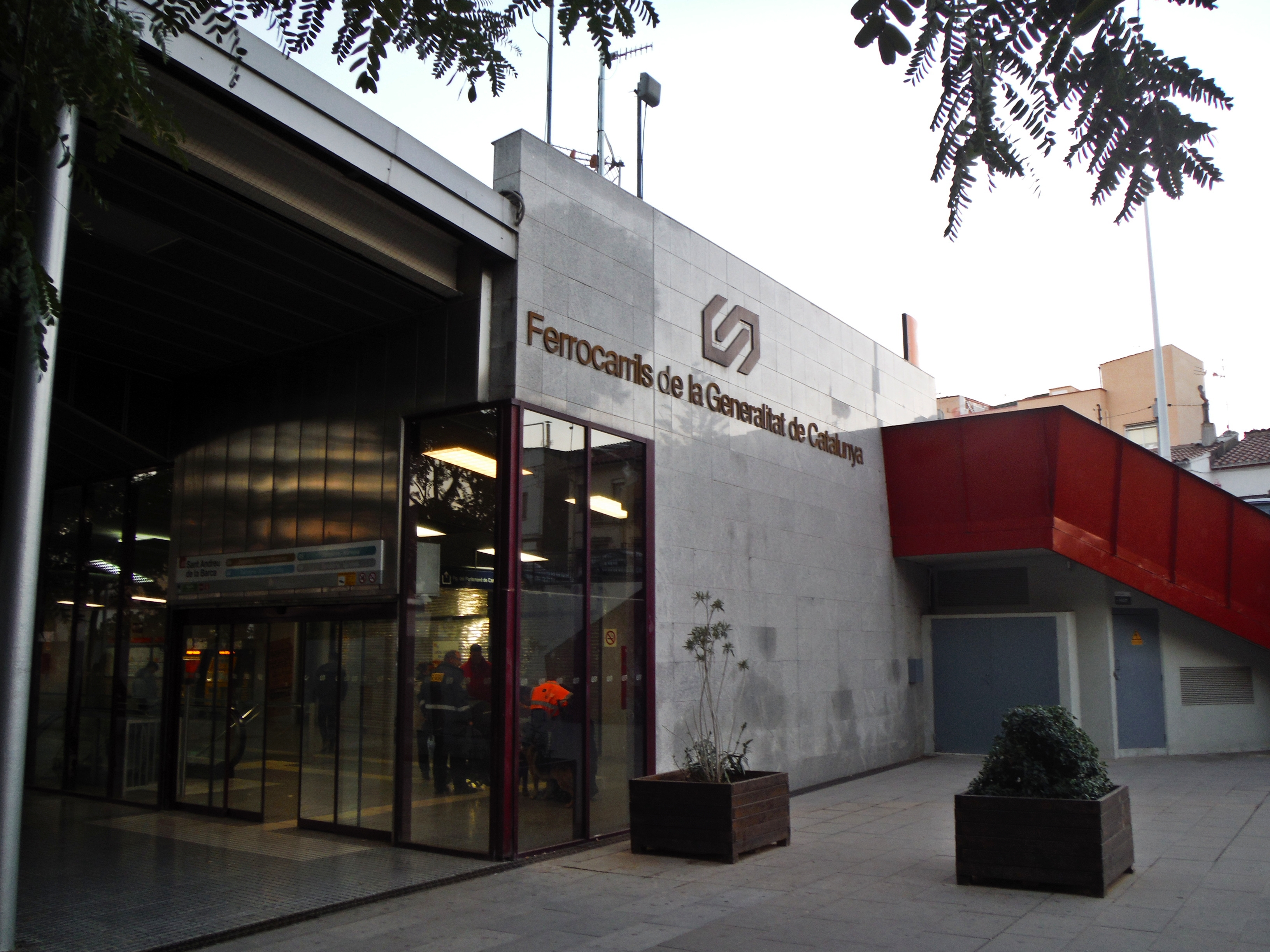 Estació de Sant Andreu de la Barca